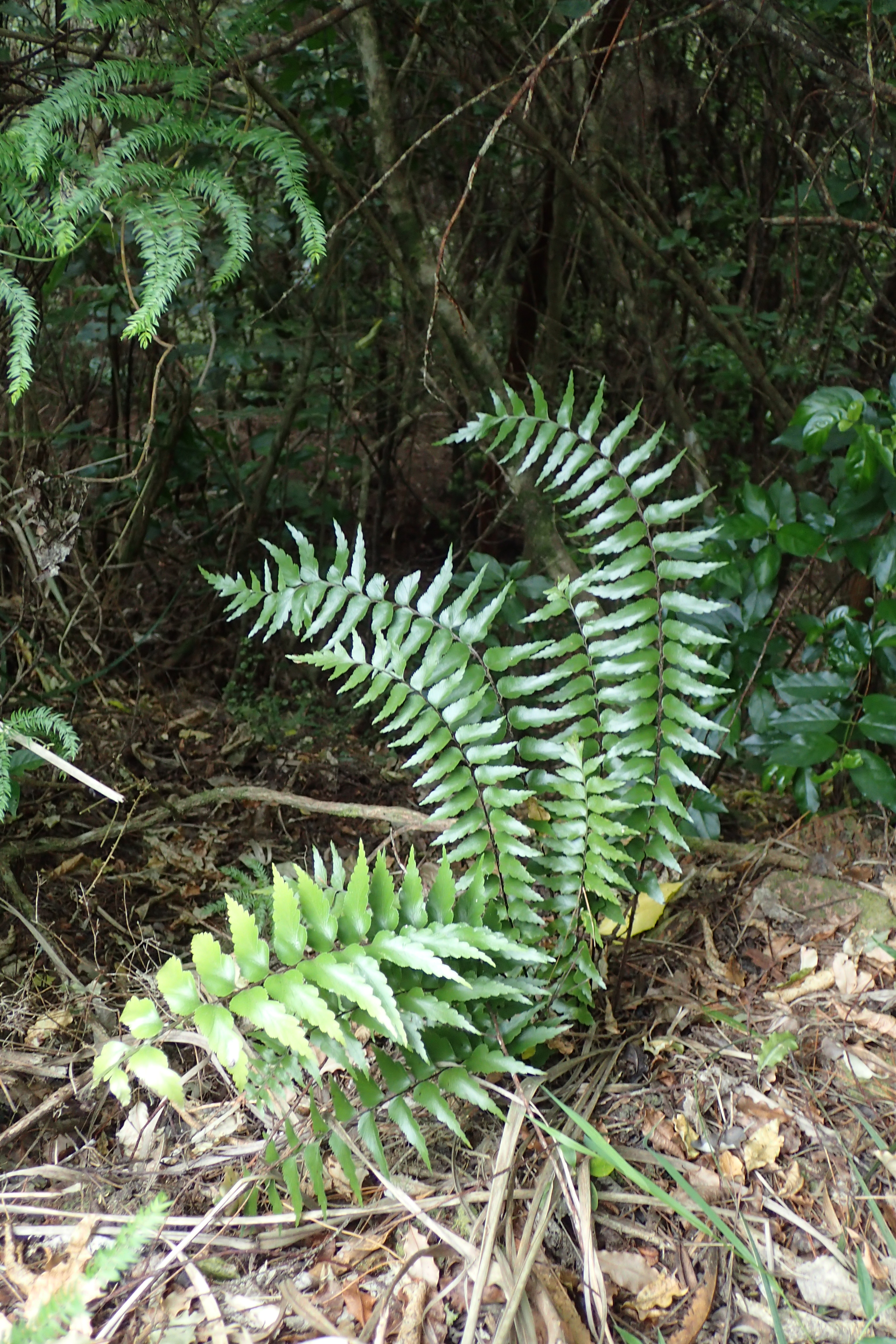 Asplenium polyodon in Thames, Waikato (New Zealand)